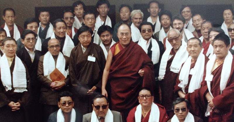 Audience with H.H. Dalai Lama after the successful conclusion of the Education Conference for Tibetan language and Literature held in Dharamsala, India in 1980.